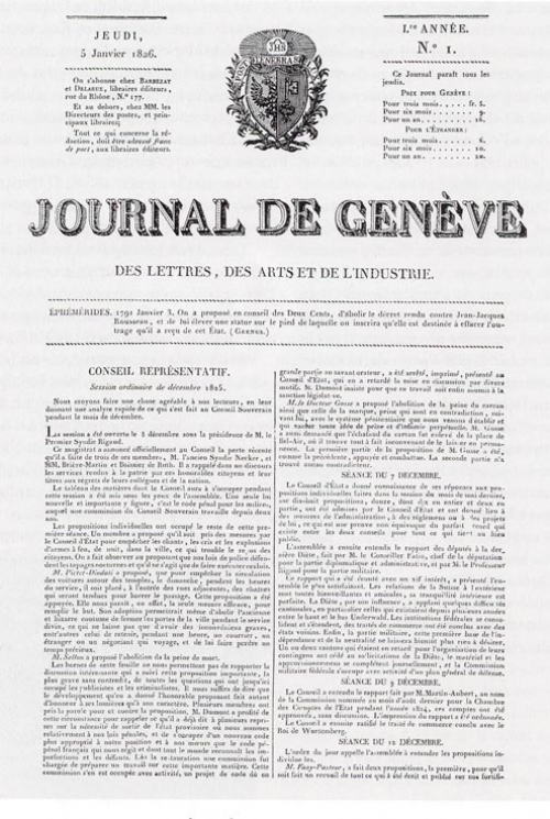 First page of the first edition of the "Journal de Genève"